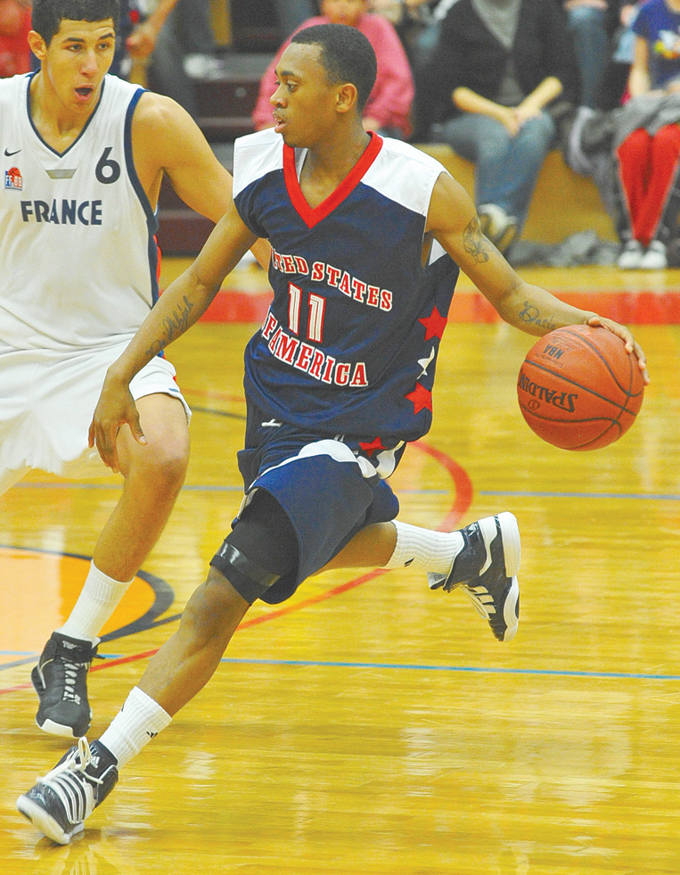 Ryan Boatright of the United States at the Albert Schweitzer Basketball Tournament in Mannheim, Germany